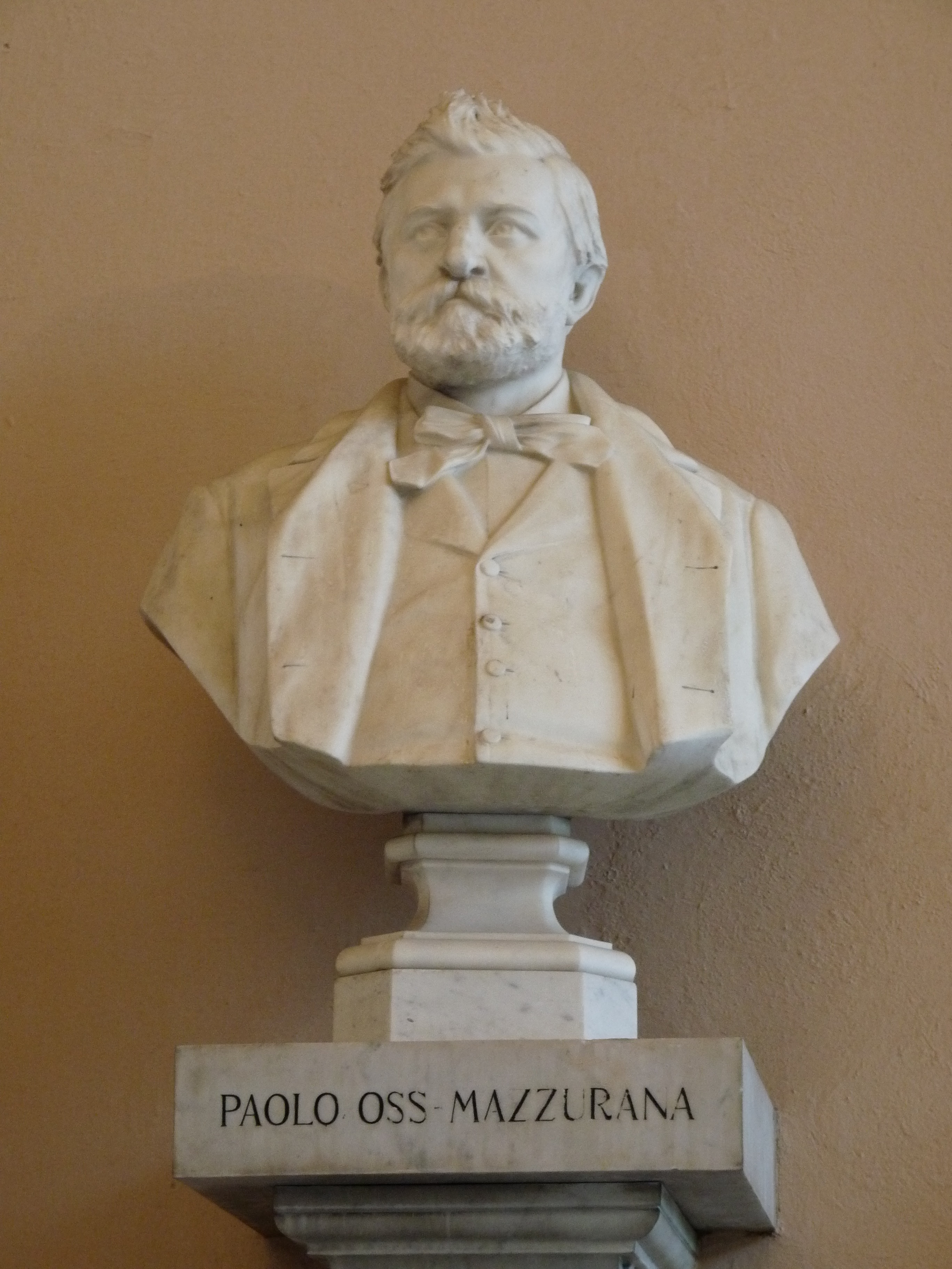 Trento (Italy): bust of Paolo Oss Mazzurana by Andrea Malfatti, in the monumental cemetery of Trento.